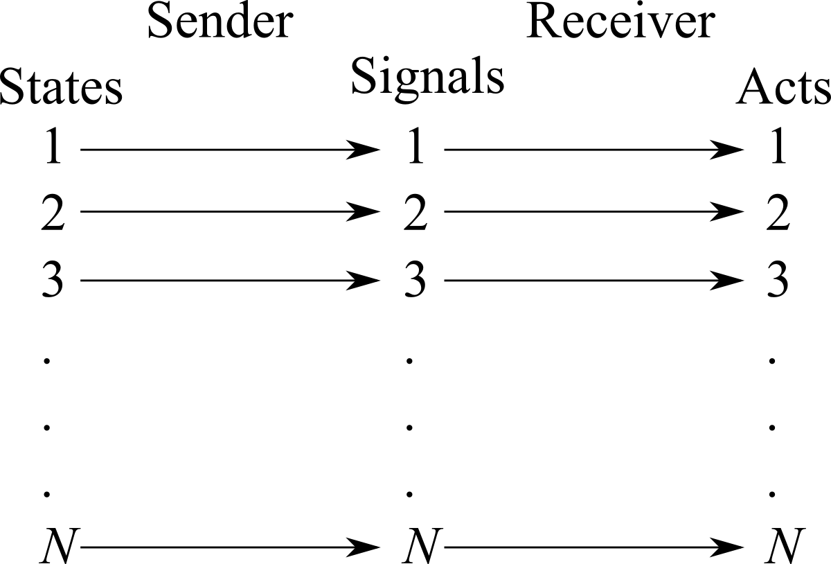 An illustration of a signaling system equilibrium in the Lewis signaling game -- a game used to analyze language.